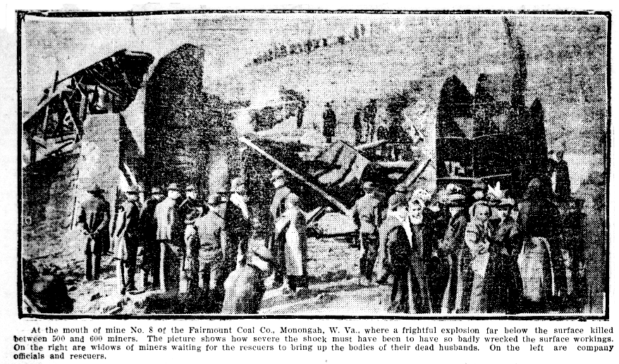 At the mouth of the No. 8 mine.